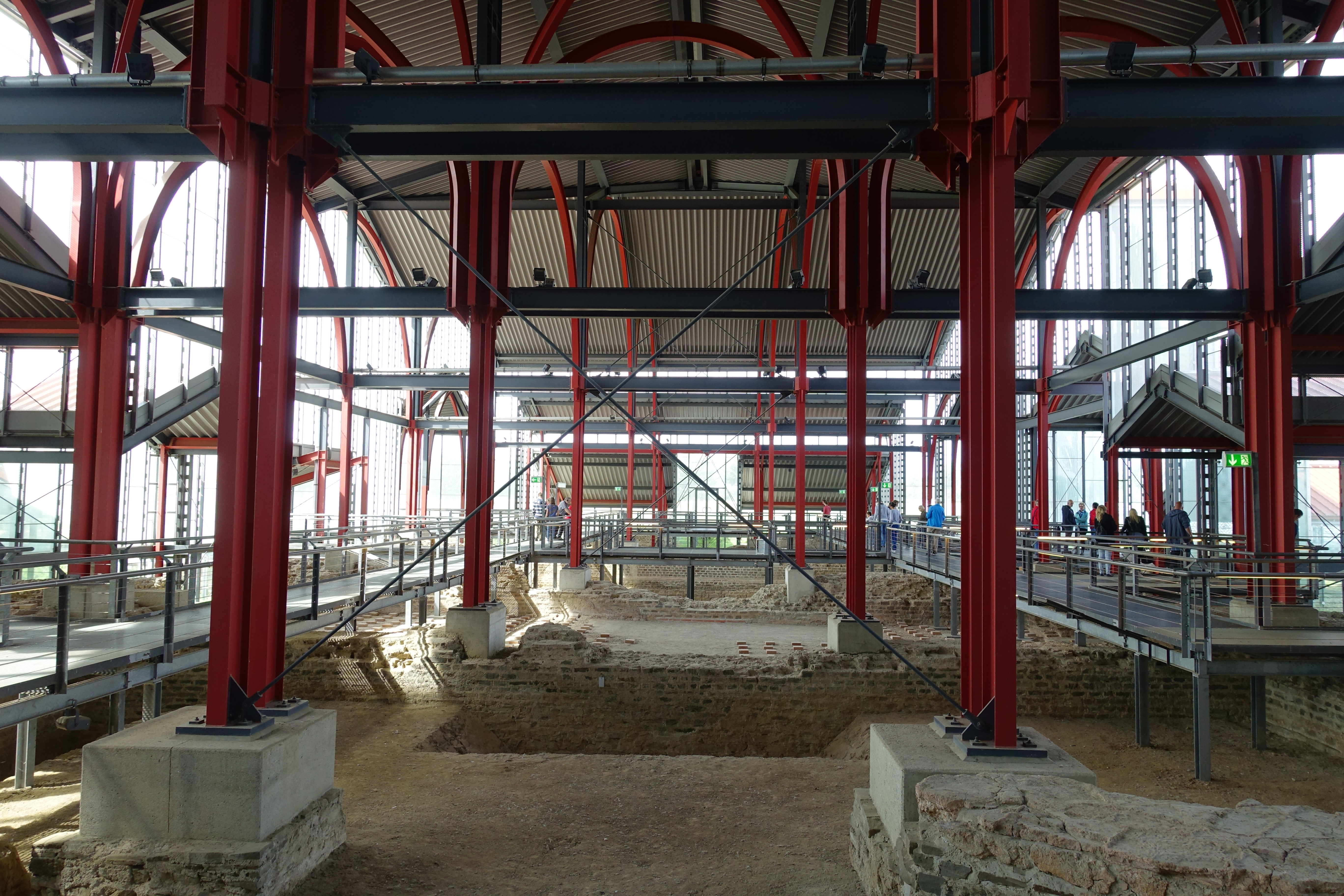 Archaeological Park Xanten (Germany). GLAM on Tour, Wikimedia Deutschland.